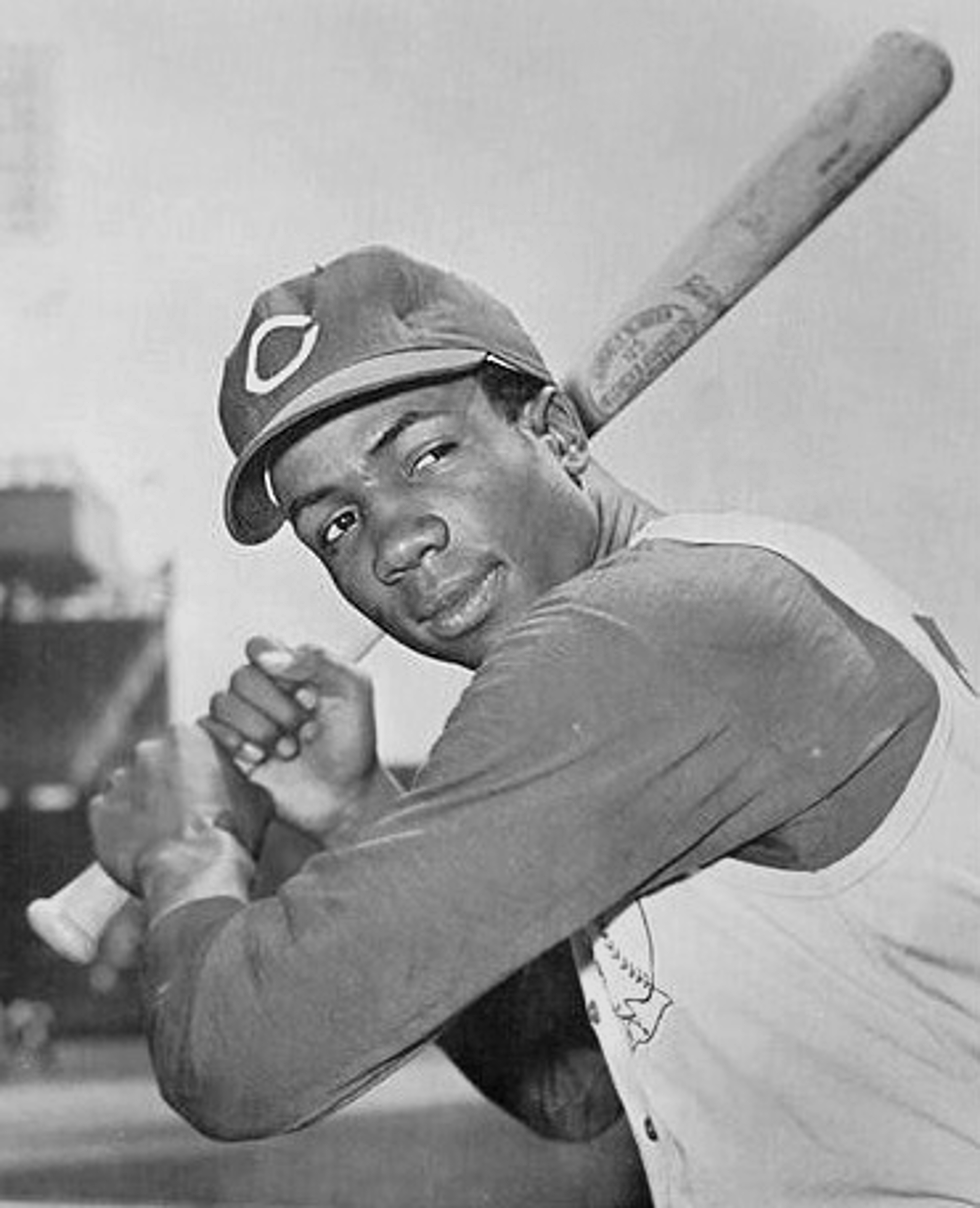 Professional baseball player Frank Robinson